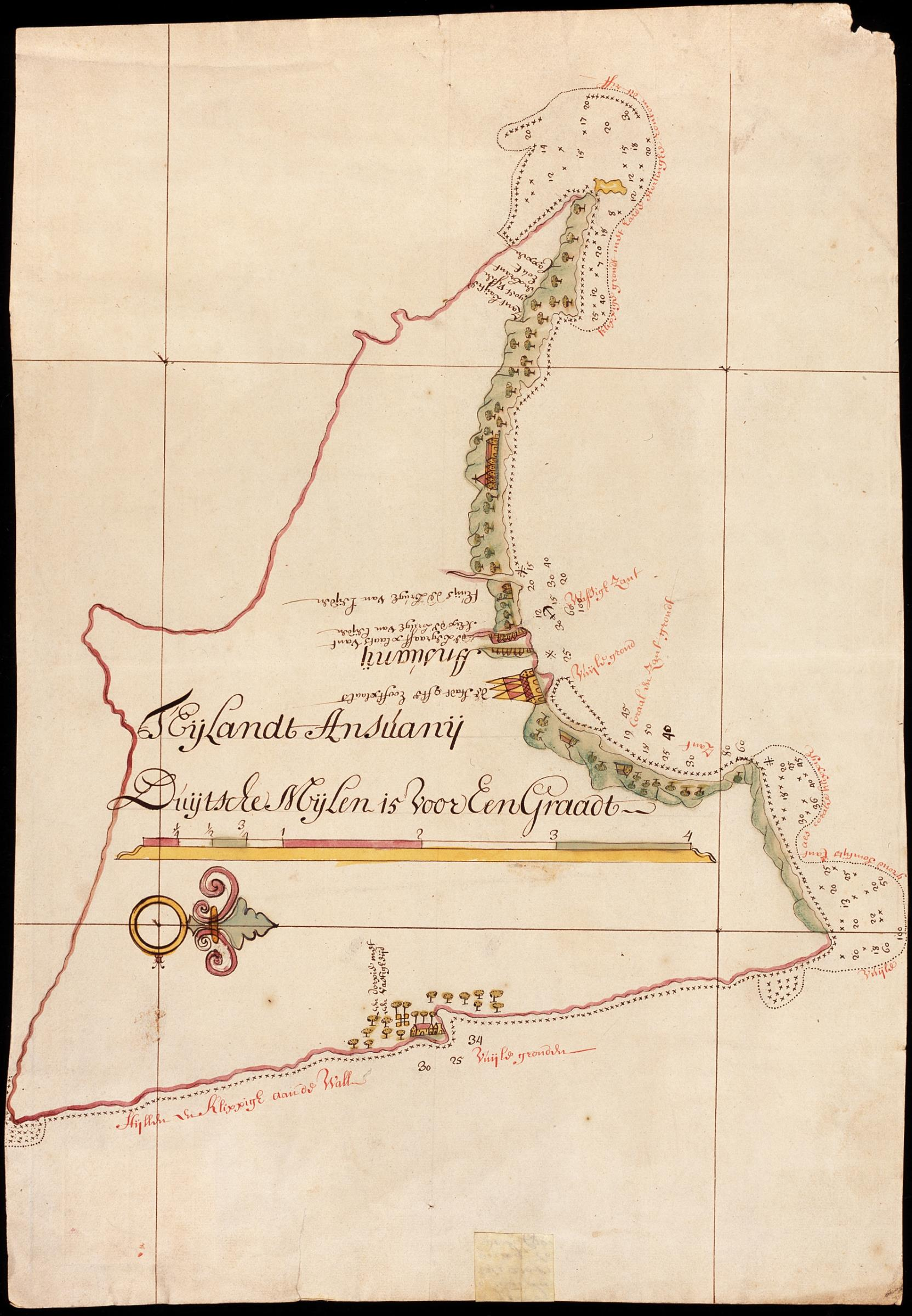 Title in the Leupe catalogue (National Archives): Kaart van 't Eylant Ansuany, als voren, zonder breedte opgave. Notes on reverse: 126b [in pencil]. Featured on this map is a small house, alongside which is written: Huijs de Brugh van Leijden. Also marked is the burial ground of the crew of the vessel 'De Brugh van Leijden' who were killed. On the map VEL0329 the same location shows a house flanked by the Dutch flag.